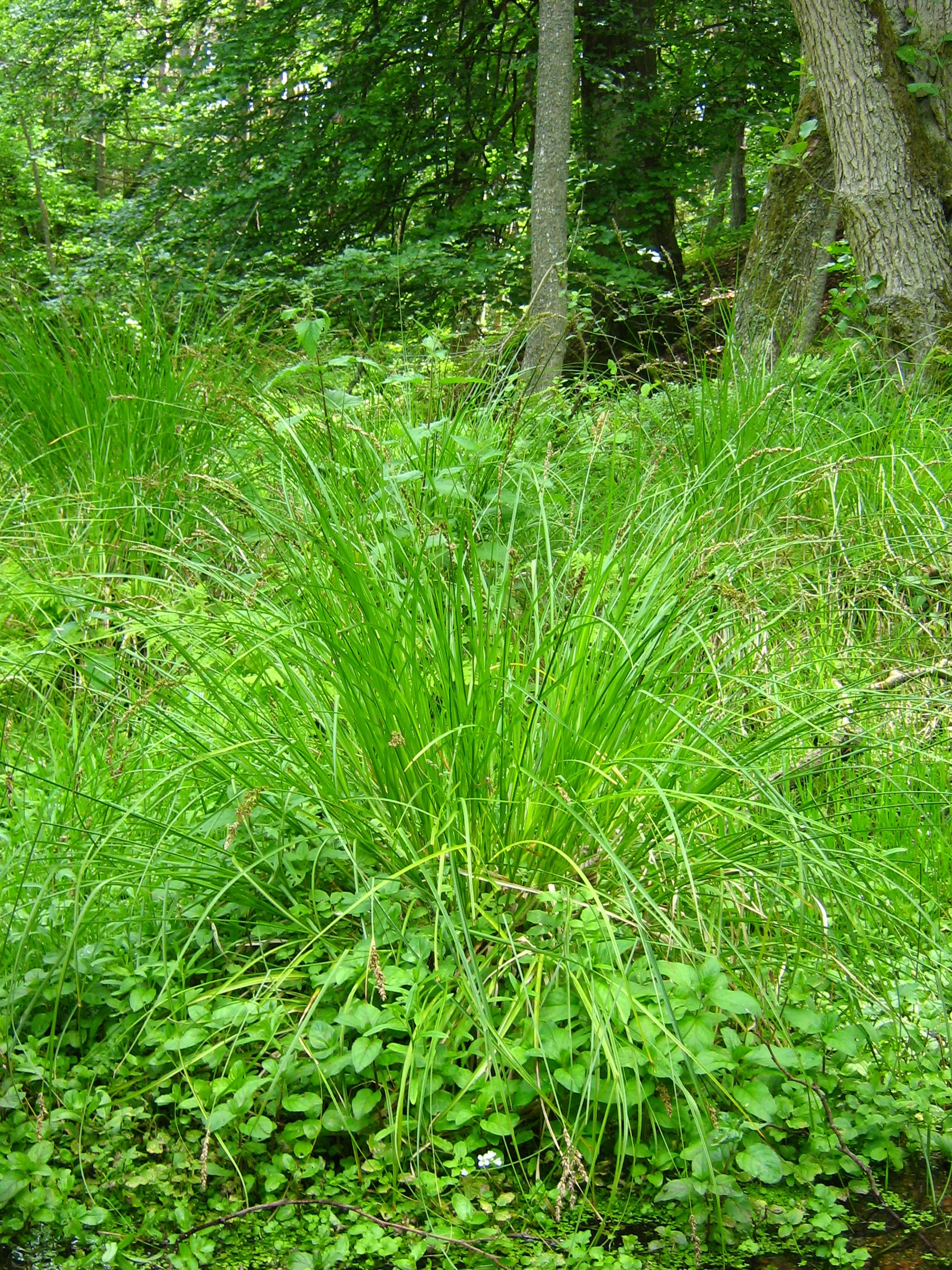 Carex paniculata in spring area, Poland